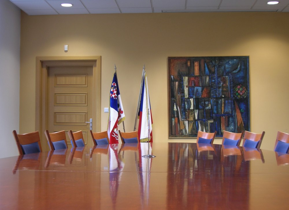 Jihlava. Žižkova Street. Boardroom of the Regional Council of the Vysocina Region